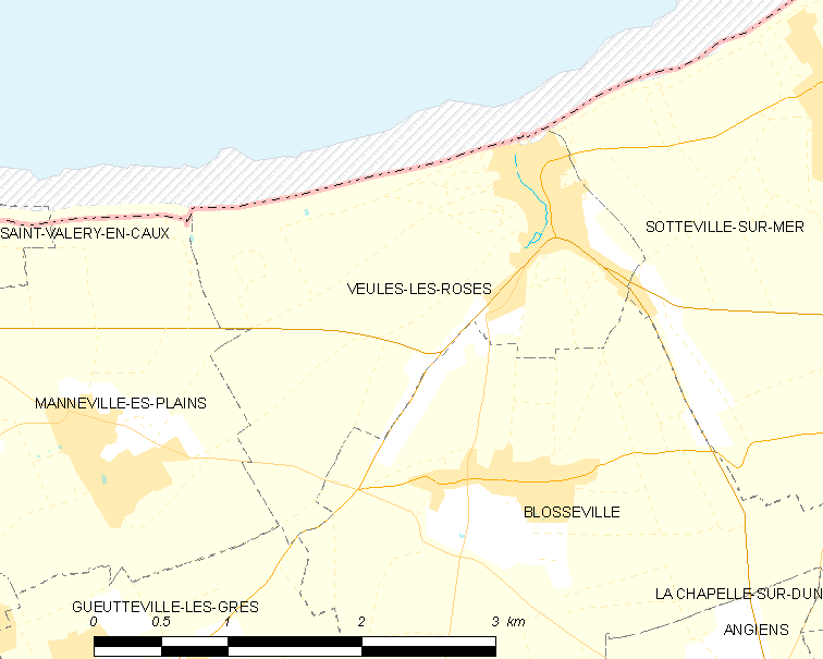 Map of French municipality Veules-les-Roses